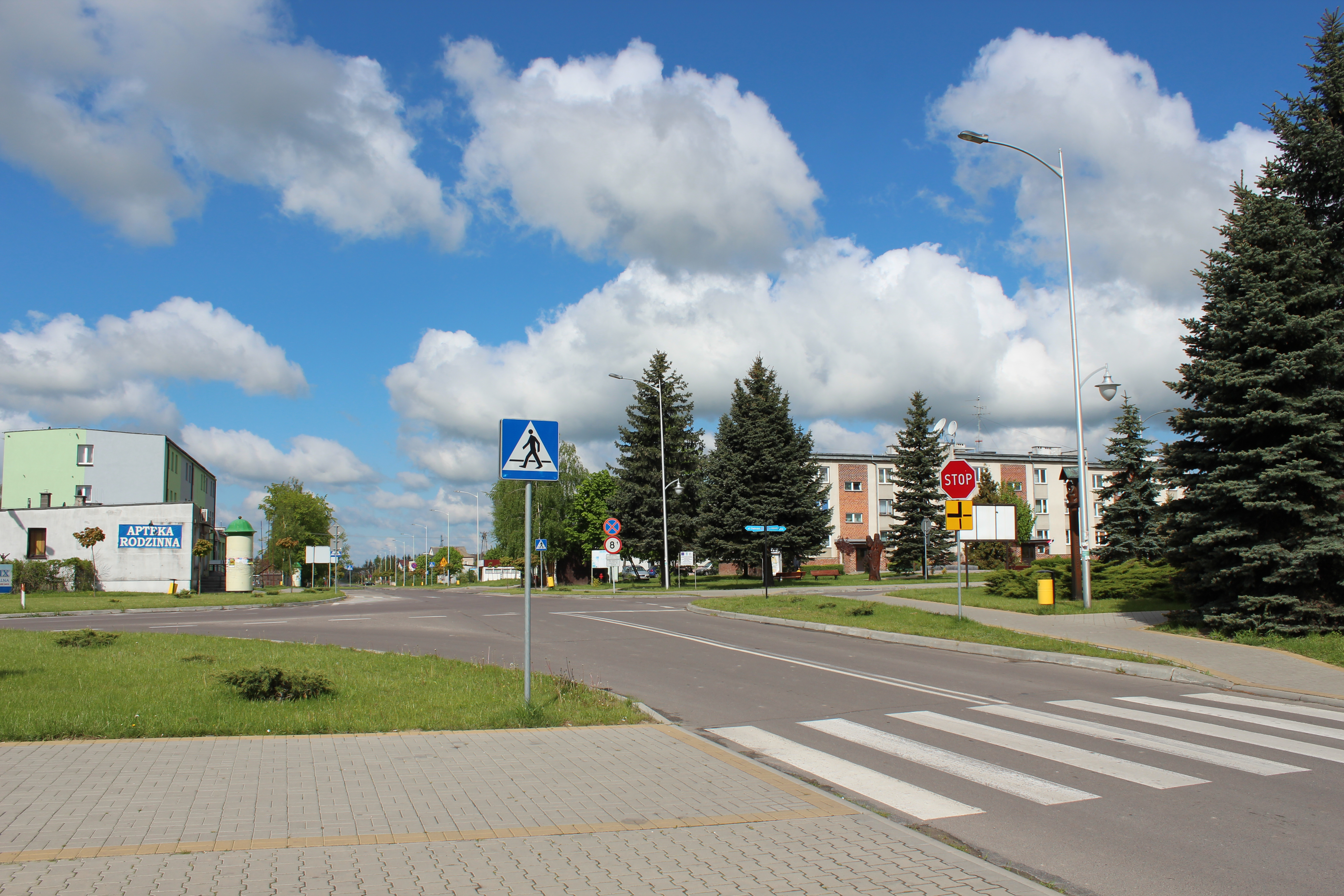 Wierzbica - center of the village